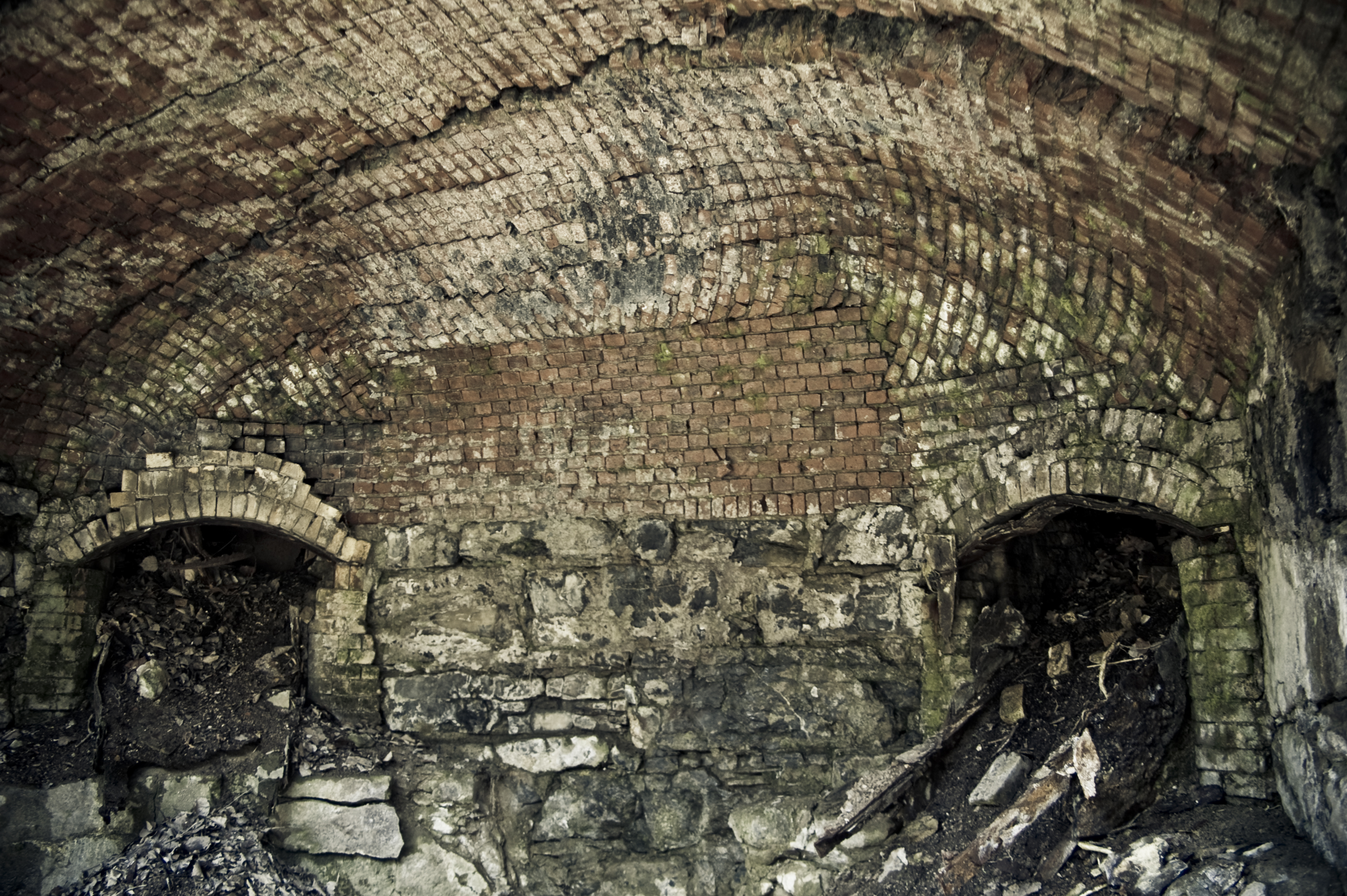 Cement kilns in Rosendale, New York